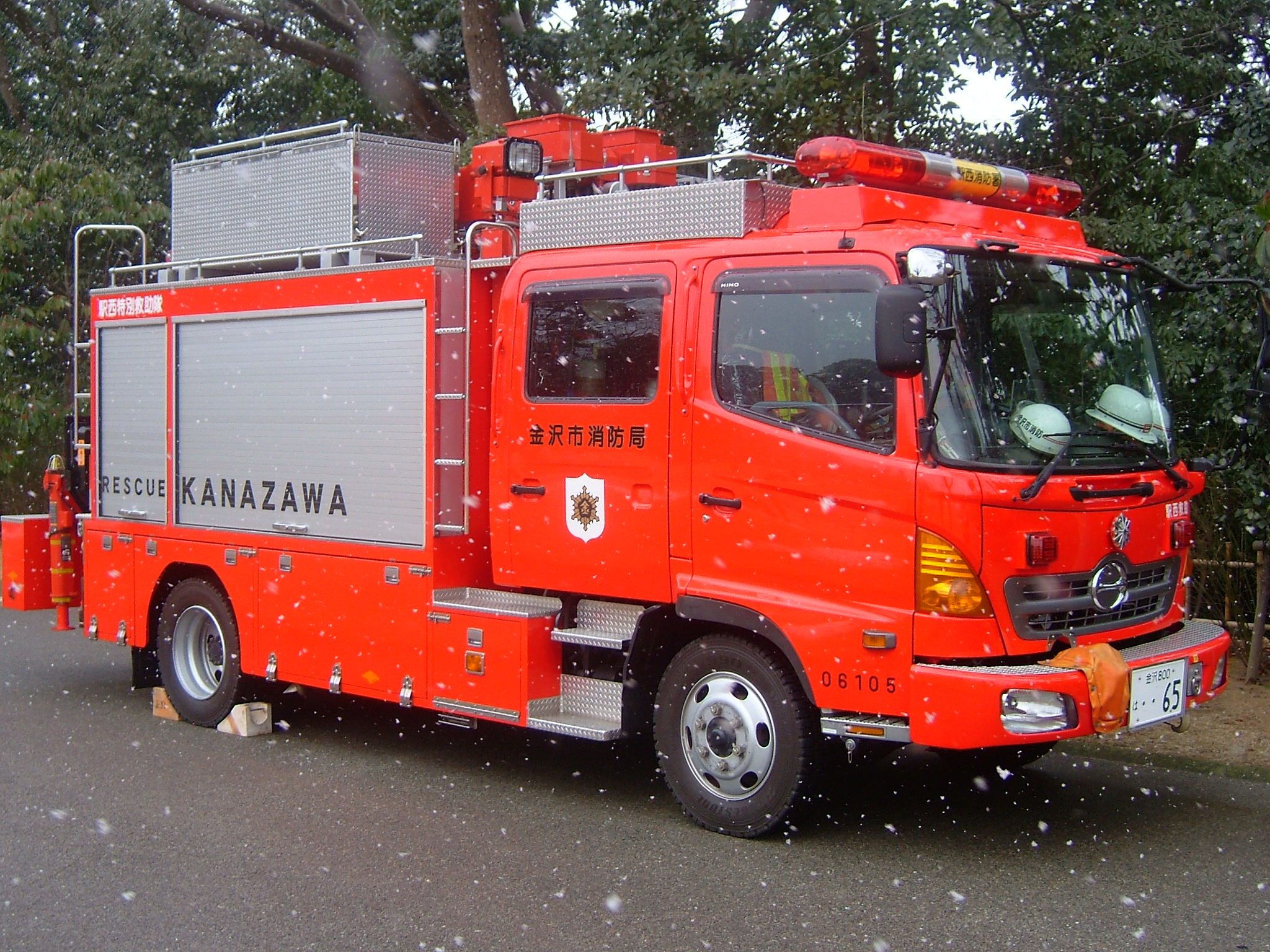 Rescue Kanazawa